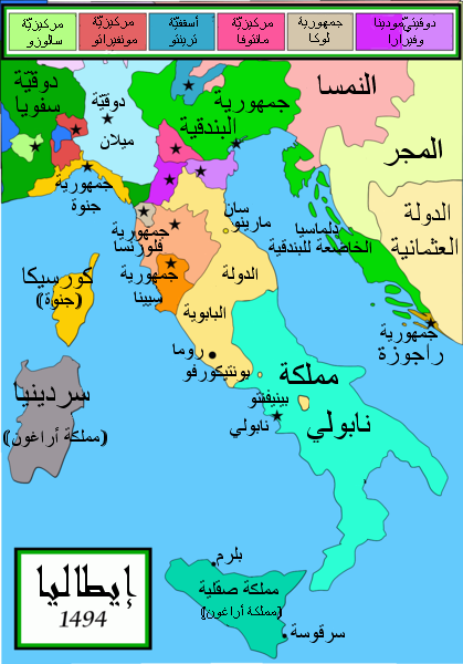 Political map of Italy in early 1494, before the invasion of Italy by Charles VIII of France, created by MapMaster. Part of a series of maps on the history of Italy: 1000 AD 1084 AD 1796 AD 1810 AD